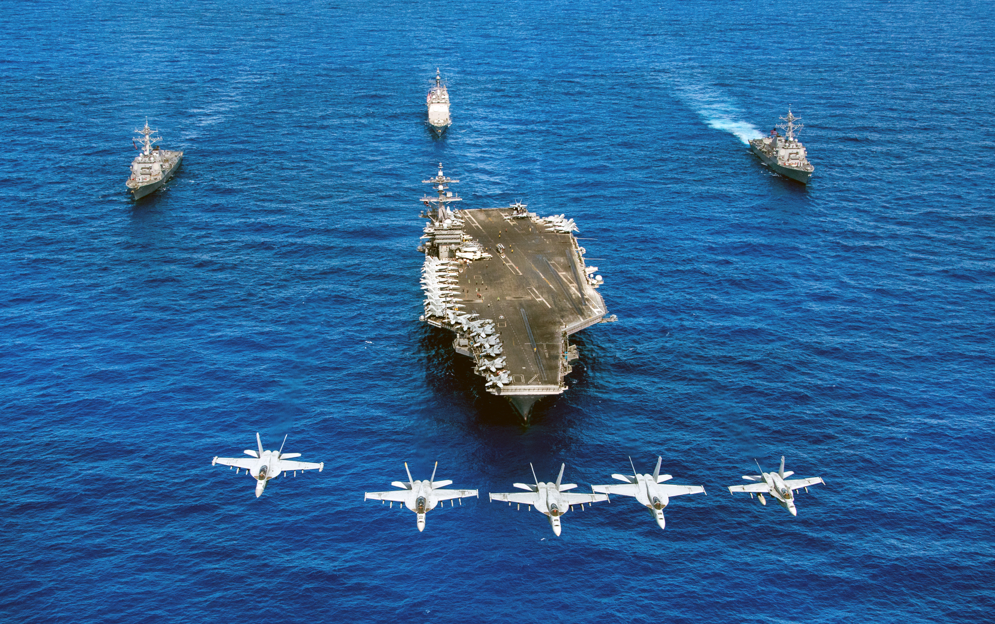 PACIFIC OCEAN (June 12, 2017) F/A-18 Hornets and Super Hornets assigned to Carrier Air Wing (CVW) 2 fly over the Nimitz-class aircraft carrier USS Carl Vinson (CVN 70), front, the Arleigh Burke-class guided-missile destroyers USS Wayne E. Meyer (DDG 108), right, USS Michael Murphy (DDG 112), left, and the Ticonderoga-class guided-missile cruiser USS Lake Champlain (CG 57) in the western Pacific. The U.S. Navy has patrolled the Indo-Asia-Pacific routinely for more than 70 years promoting regional peace and security. (U.S. Navy photo by Mass Communication Specialist 2nd Class Sean M. Castellano/Released)170612-N-BL637-074 Join the conversation: navylive.dodlive.mil